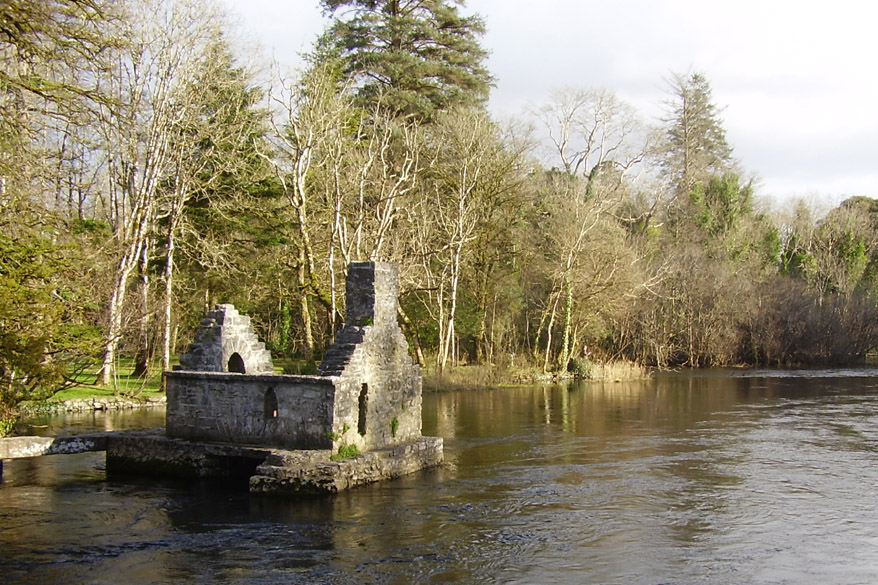 Monk's Fishing House at Cong Abbey, on the bank of the Cong River